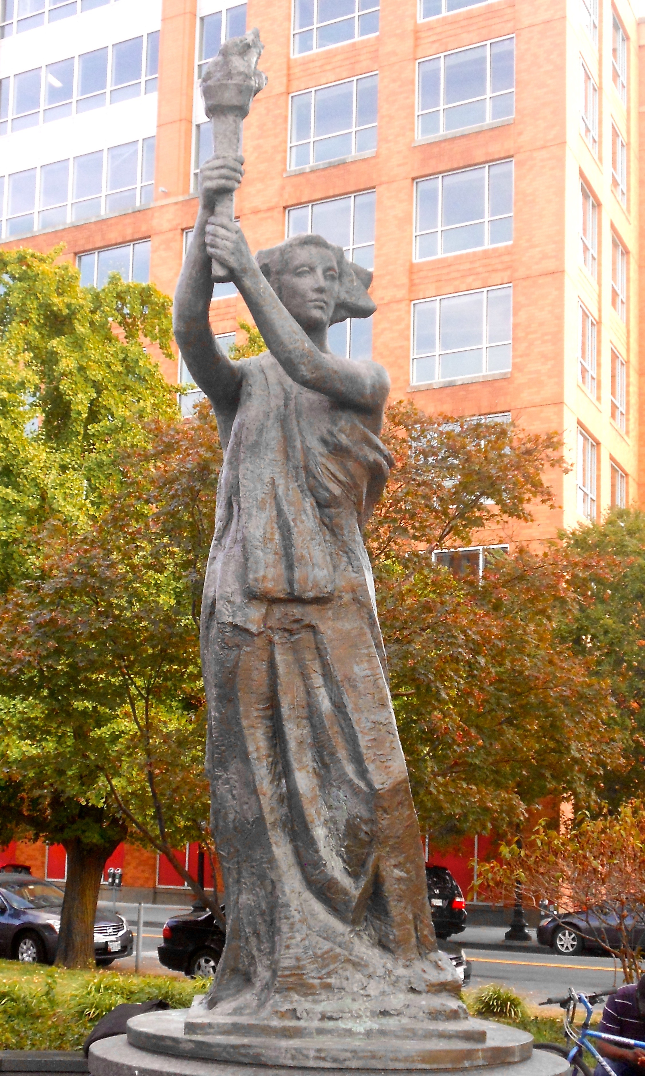 The "Goddess of Democracy" Statue in Washington DC, also known as the "Victims of Communism Memorial" by Thomas Marsh, based on the Tianamen Square "Goddess of Democracy" that was brutally destroyed by the PRC government. Thomas Marsh has very kindly given his commitment to keeping the image of the statue free to use and has licensed the image (the right to photograph the statue) "Creative Commons Attribution-ShareAlike 3.0" (unported) and GNU Free Documentation License (unversioned, with no invariant sections, front-cover texts, or back-cover texts) The This covers not only the Victims of Communism Memorial but also the statue in the Newseum in DC, the statue in Vancouver, BC, and the statue in Calgary, Alberta. Attribution should read "Statue by Thomas Marsh" or "Statue recreated by Thomas Marsh" or similar. Ticket contains permission from the sculptor. OTRS Wikimedia as ticket #2013050210011398.